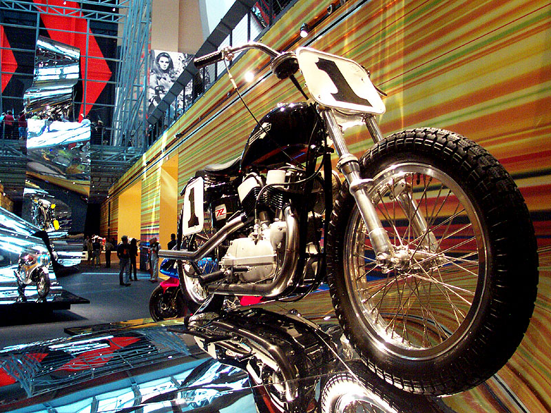 "The Art of the Motorcycle" at the Rem Koolhaas-designed Guggenheim Las Vegas. The museum is now partially defunct: The "big box" space, where these bikes were displayed, was closed several years ago, though the smaller GuggenheimHermitage gallery space remains. The exhibition's distinctive metalwork was designed by Frank Gehry.